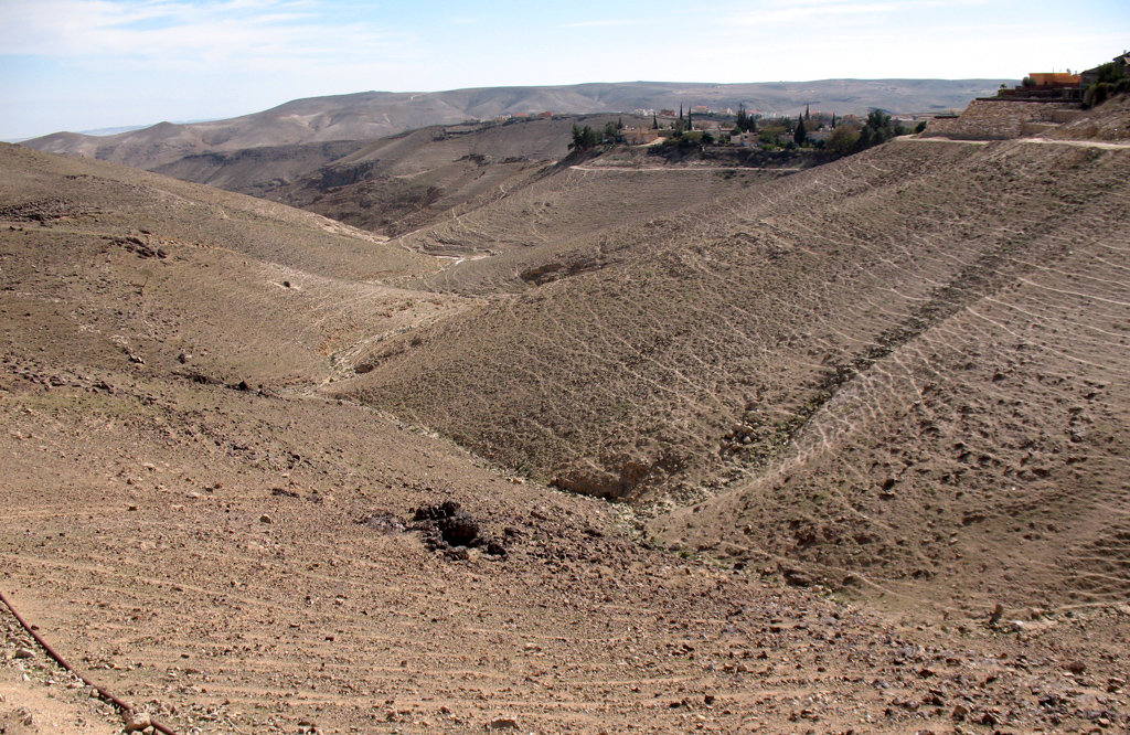 Praim Stream/wadi in Arad, Israel